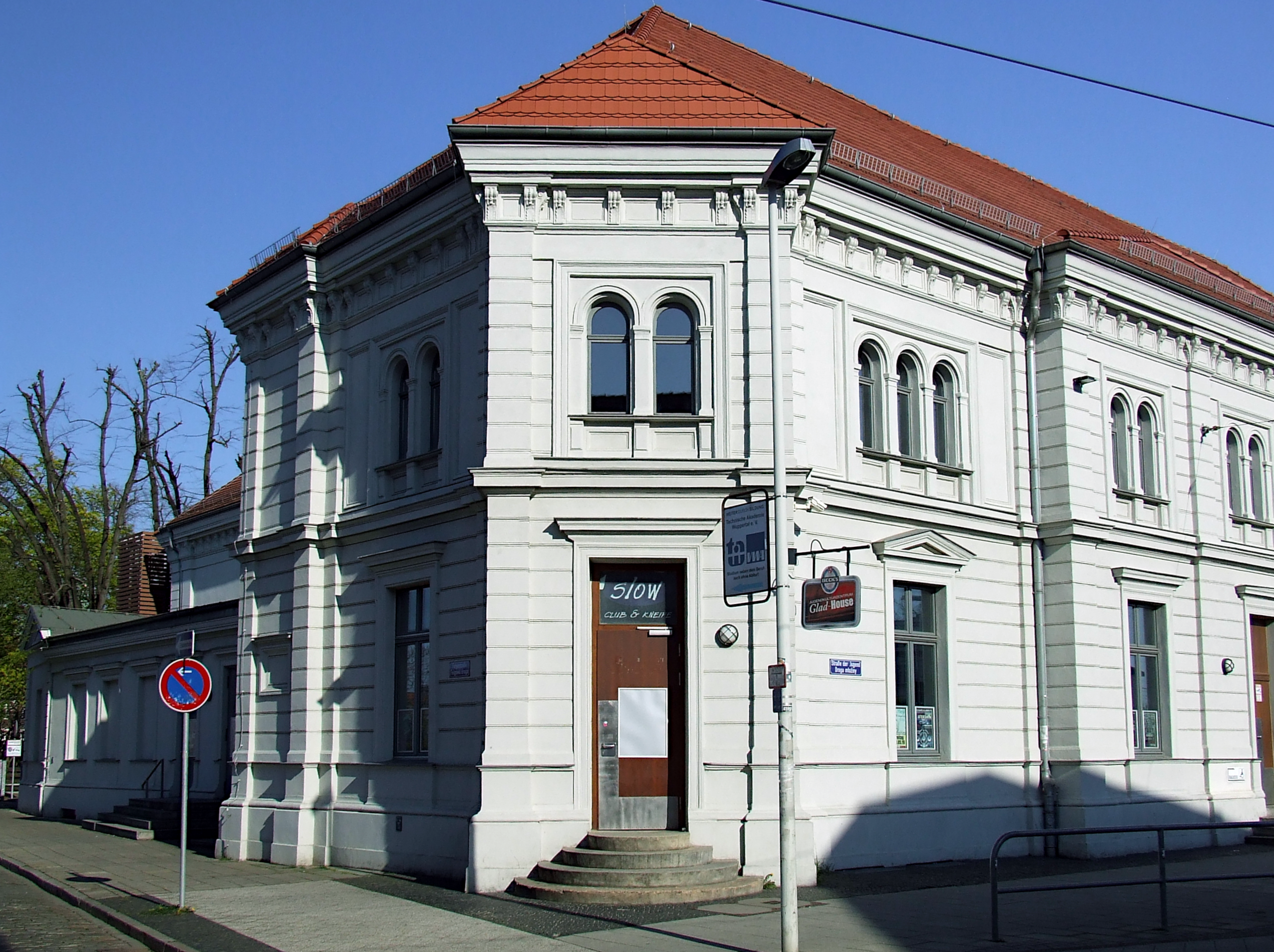 Straße der Jugend 16 (Bürger-Kasino) in Cottbus-Mitte. Shown here is the façade at the corner of Straße der Jugend and Feigestraße.